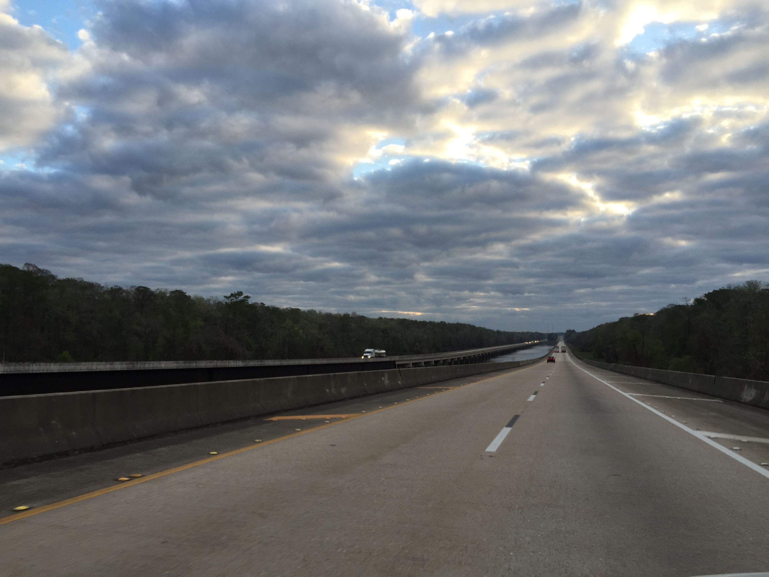 View north along Interstate 65 crossing the General W.K. Wilson Jr. Bridge over the Mobile-Tensaw River Delta in Baldwin County, Alabama